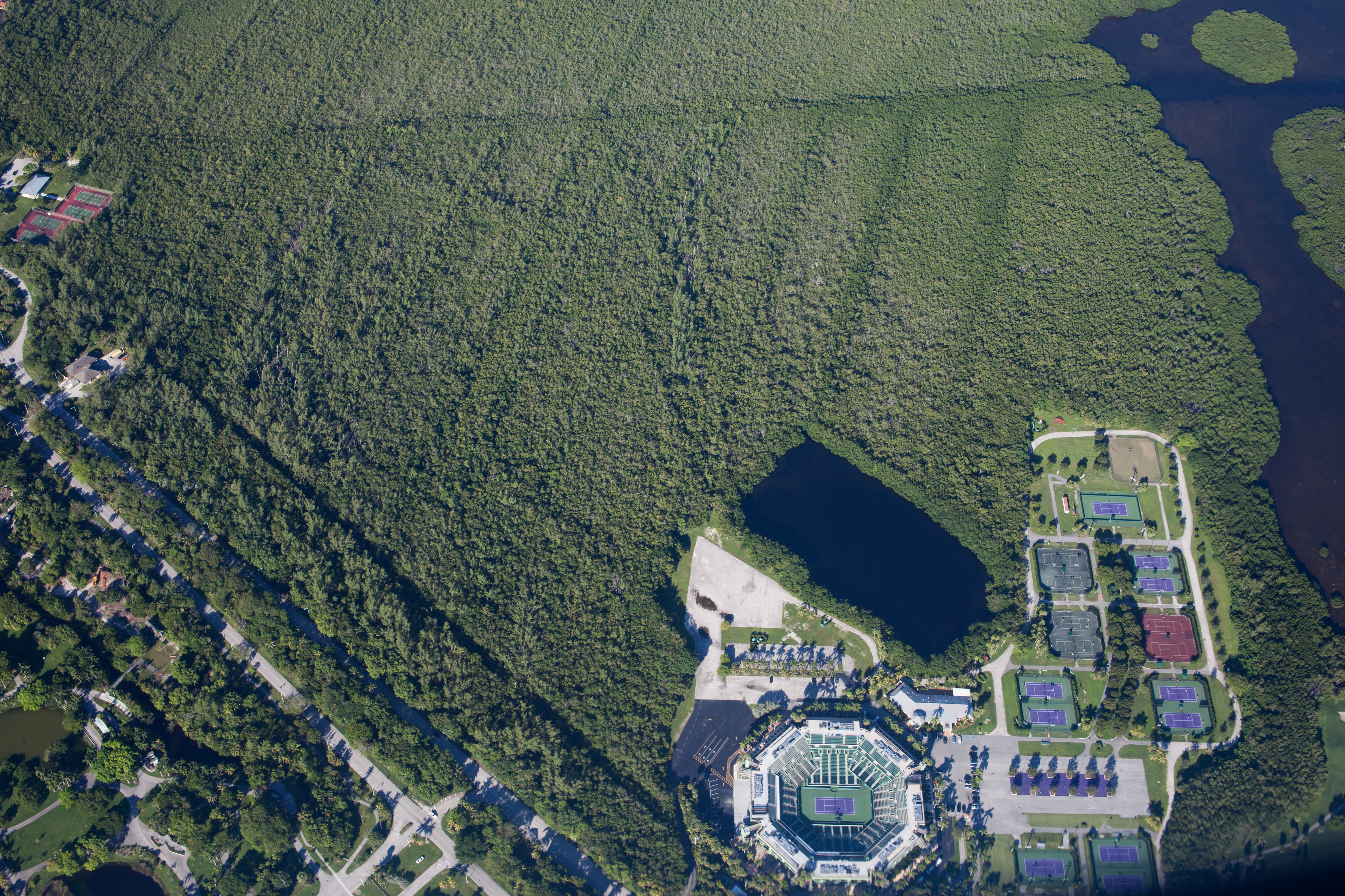 Tennis Center at Crandon Park